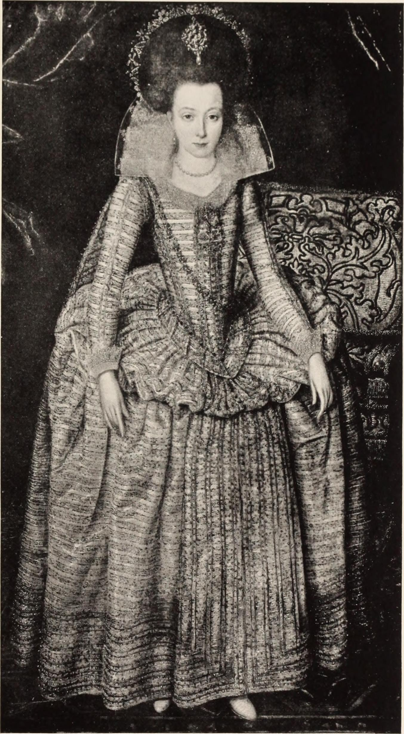 Title: Illustrated catalogue of the valuable paintings and sculptures by the old and modern masters forming the famous Catholina Lambert Collection removed from Belle Vista Castle, Paterson, New Jersey Year: 1916 (1910s) Authors: American Art Association Roberts, W. (William), 1862-1940 Coffin, William A. (William Anderson), 1855-1925 Subjects: Lambert, Catholina, -1923 Luini, Bernardino, 1475?-1533? Publisher: New York : American Art Association Text Appearing Before Image: 17th Century 358—L^DF ARABELLA STUART Daughter of Charles Earl of Lennox, next heir to the Englishthrone after James I.; born in 1575, married secretly to Sir Wil-liam Seymour; died in the Tower of London, 1615. ^\,I Whole-length figure when young, standing, directed to front; in gray and gold patterned dress garnished with precious stones, pearlnecklace, white high collar, white lace headdress; brown hair dressedhigh, with jeweled ornament; brown curtain. Canvas: Height, 67 inches; width, 37 inches. From the collection of Lady Penelope Gage, Hengrave Hall, Suffolk. Several portraits exist in English collections of this unfortunate lady,mostly by unidentified artists of foreign origin who were working in Eng-land during the Tudor and early Stuart periods. They differ considerablyfrom one another. One of the earliest, which represents her at the ageof thirteen, belongs to the Duke of Portland, and was formerly attributedto Zucchero, but that artist was not in England as late as 1589. Text Appearing After Image: RP^MKllANDT SCHOOL Dutch